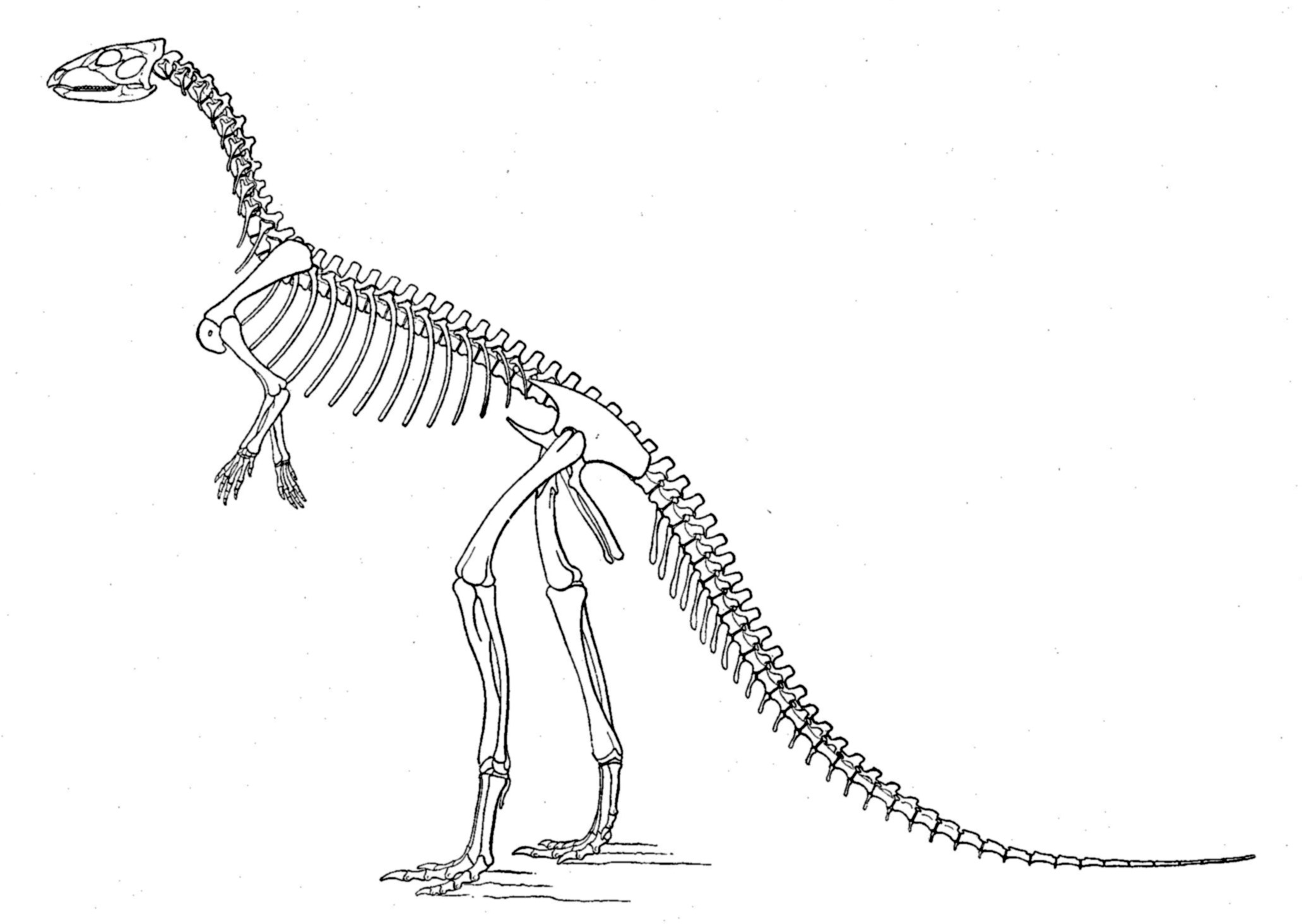 Skeletal restoration of "Laosaurus" consors (now Othnielosaurus)